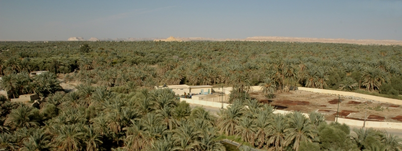 Oase Siwa, Egypt.